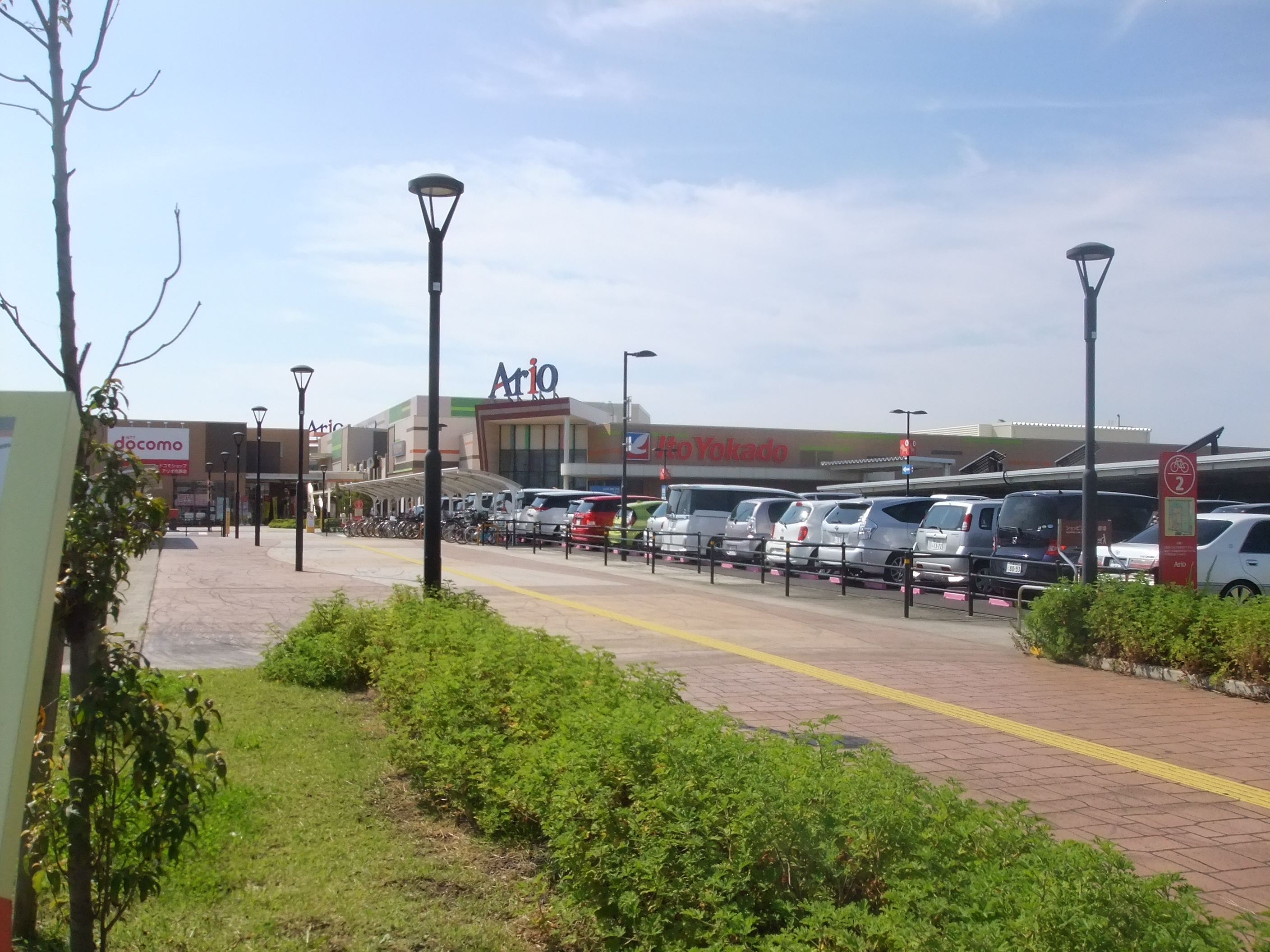 Ario ichihara shop